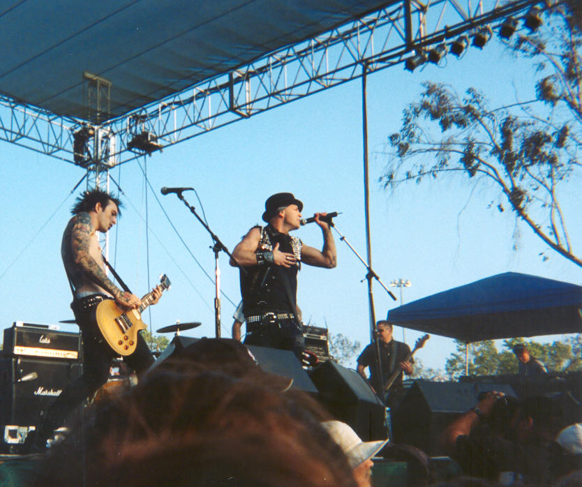 The Transplants with Matt Freeman at LIVE 105's BFD.